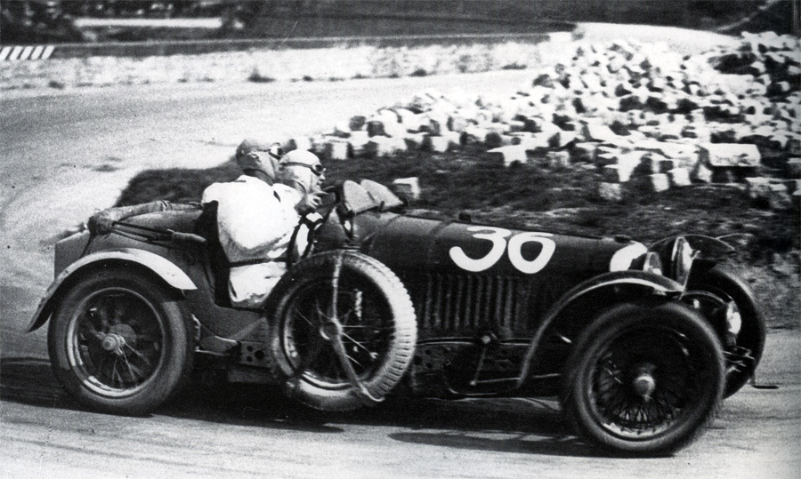 Domenico Tabanelli and C. Borgnino in a Maserati 4CTR 1100 at Mille Miglia race in Italia on 9 April 1933. They ended in 37th place.[1] It may be chassis no 1113.